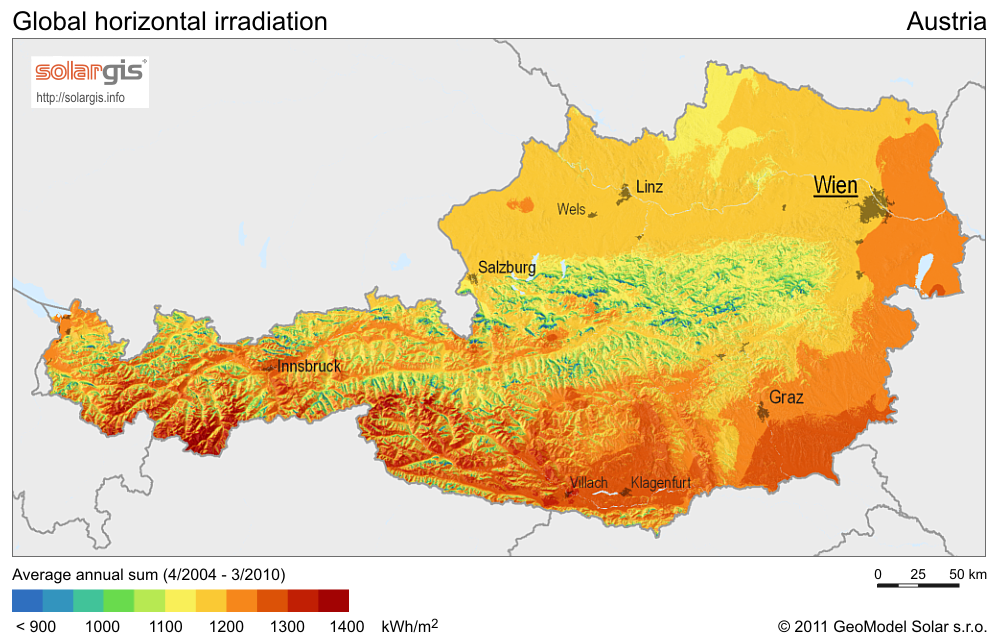 Solar Radiation Map: Global Horizontal Irradiation Map of Austria, SolarGIS 2011